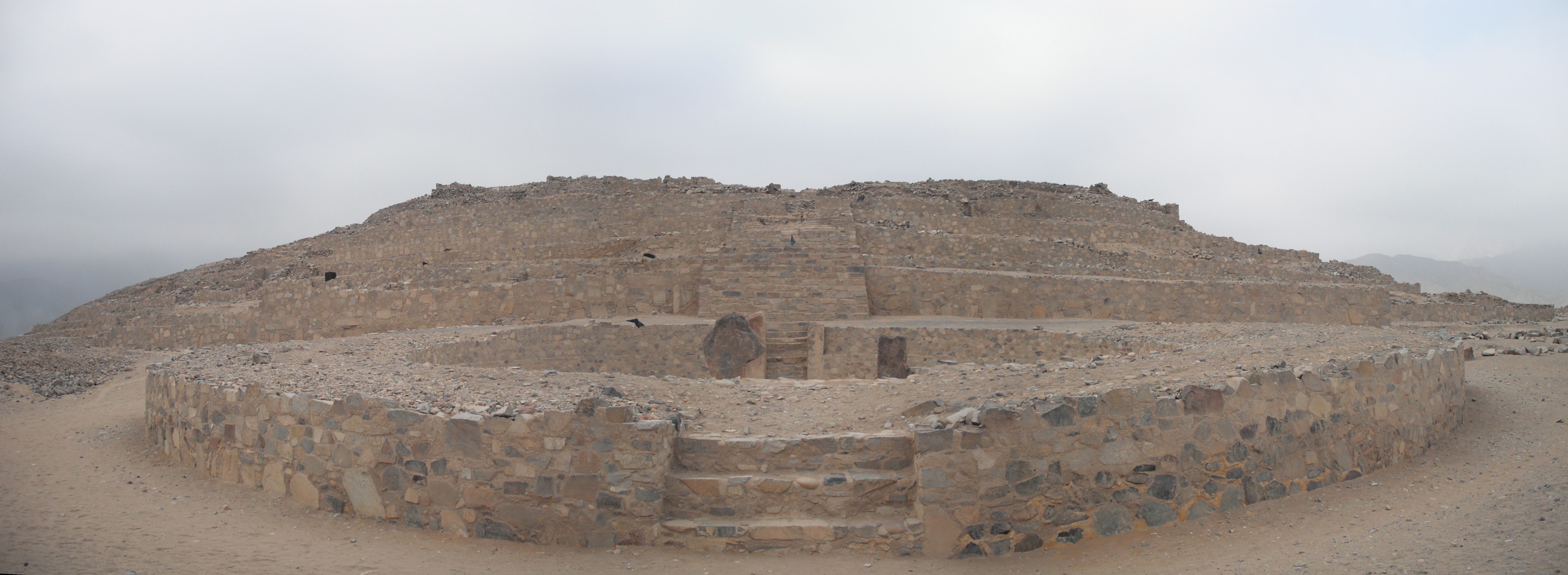 Caral's pyramid and square